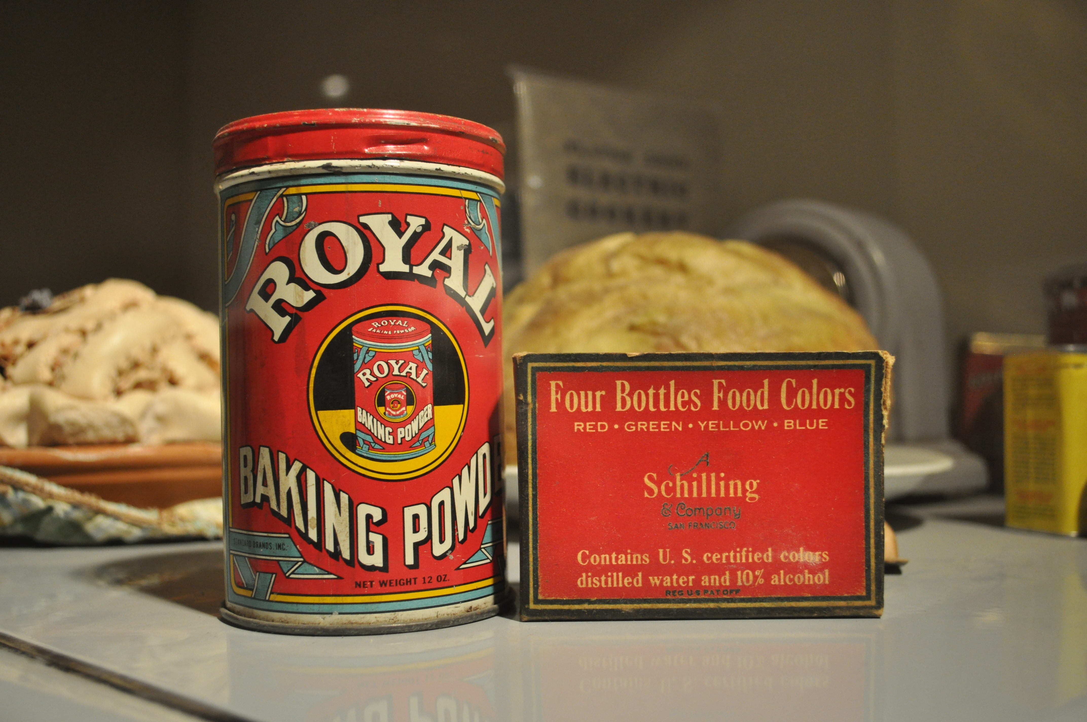 Royal Baking Powder and Schilling Food Coloring, early to mid 20th century, photographed at Edmonds Historical Museum, Edmonds, Washington, USA.